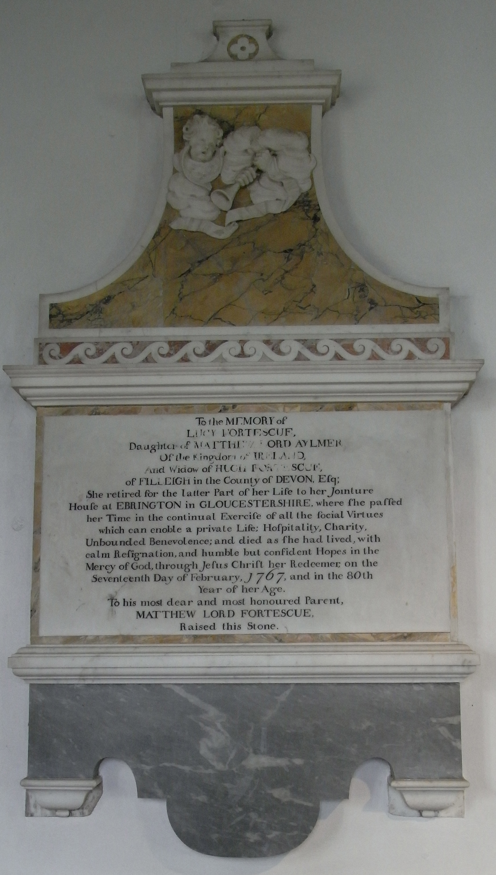 Mural monument to Lucy Fortescue (d.1767), west wall of south aisle chapel, Filleigh Church, Devon, inscribed: "To the memory of Lucy Fortescue daughter of Matthew Ford Aylmer of the Kingdom of Ireland and widow of Hugh Fortescue of Filleigh in the county of Devon, Esq. She retired for the latter part of her life to her jointure house at Ebrington in Gloucestershire where she passed her time in the continual exercise of all the social virtues which can enoble a private life: Hospitality, Charity, Unbounded Benevolence; and died as she had lived with calm resignation and humble but confident hopes in the mercy of God through Jesus Christ her Redeemer; on the seventeenth day of February 1767 and in the 80th year of her age. To his most dear and most honoured parent, Matthew Lord Fortescue raised this stone".